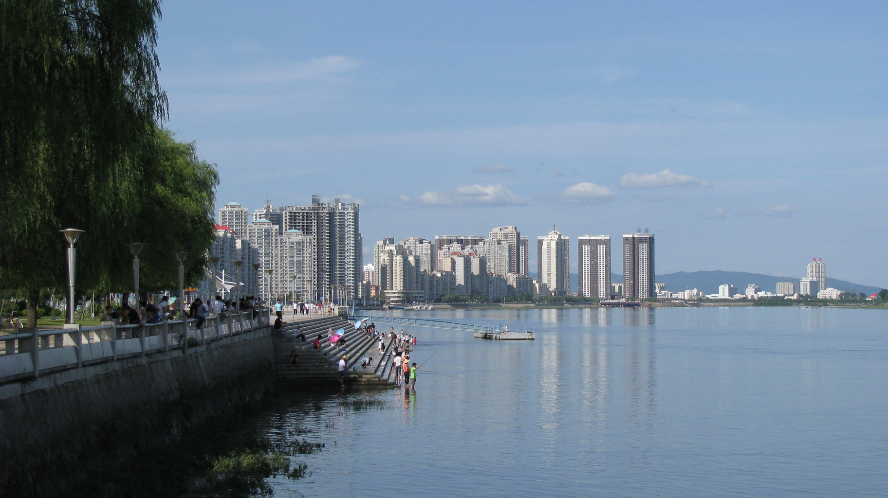 江边 bank of Yalu River